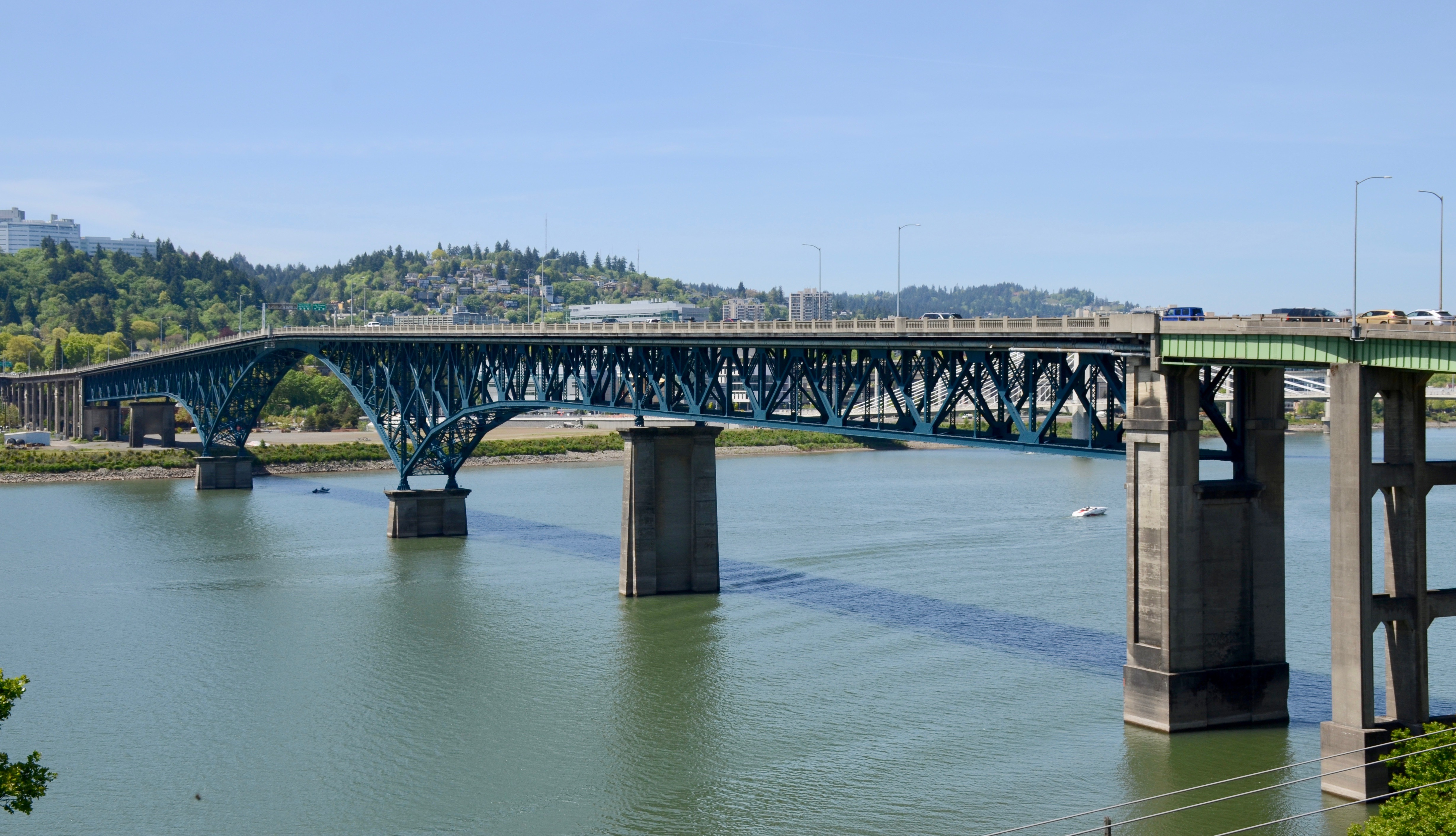 View of nearly the entire length of the Ross Island Bridge (in Portland, Oregon) from the southeast, from Highway 99E (a.k.a. Oregon Route 99E or McLoughlin Blvd.). Photo taken shortly after the completion of a full repainting of the 1926-built bridge, the first since 1965, when it first received this blue color. The blue had faded considerably by the time of the repainting project, which ran from 2014 to early 2019, including preparation work.